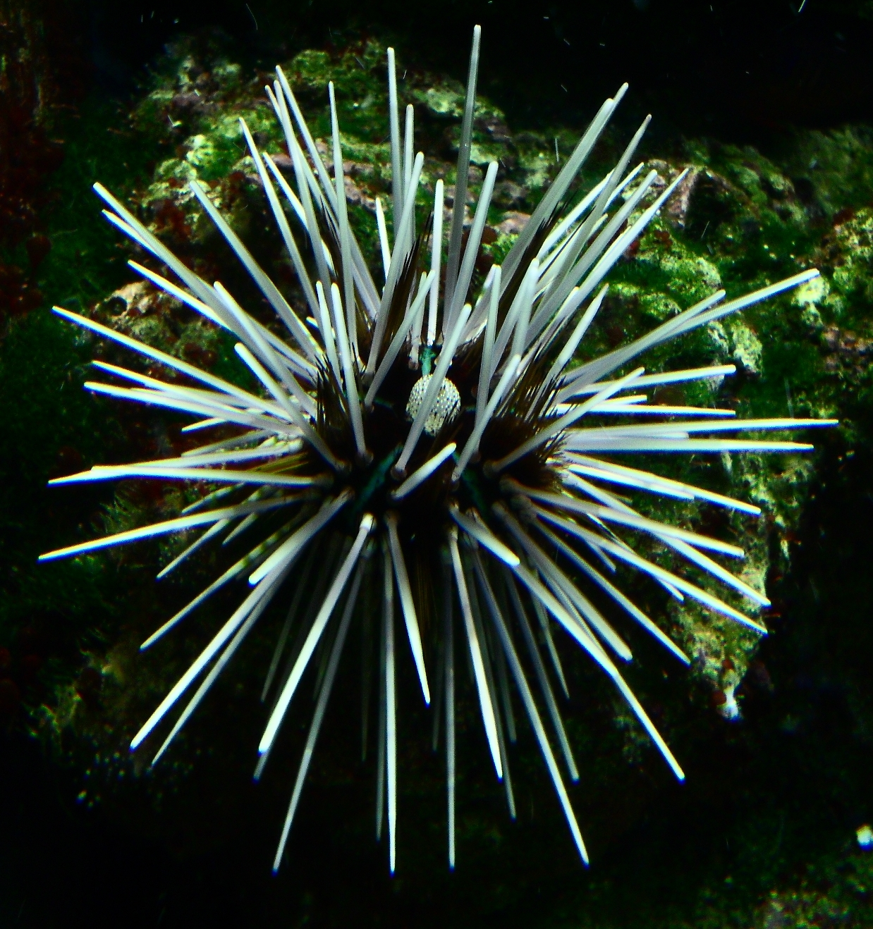 Echinothrix calamaris urchin (Diadem-Seeigel) - Zoo Leipzig